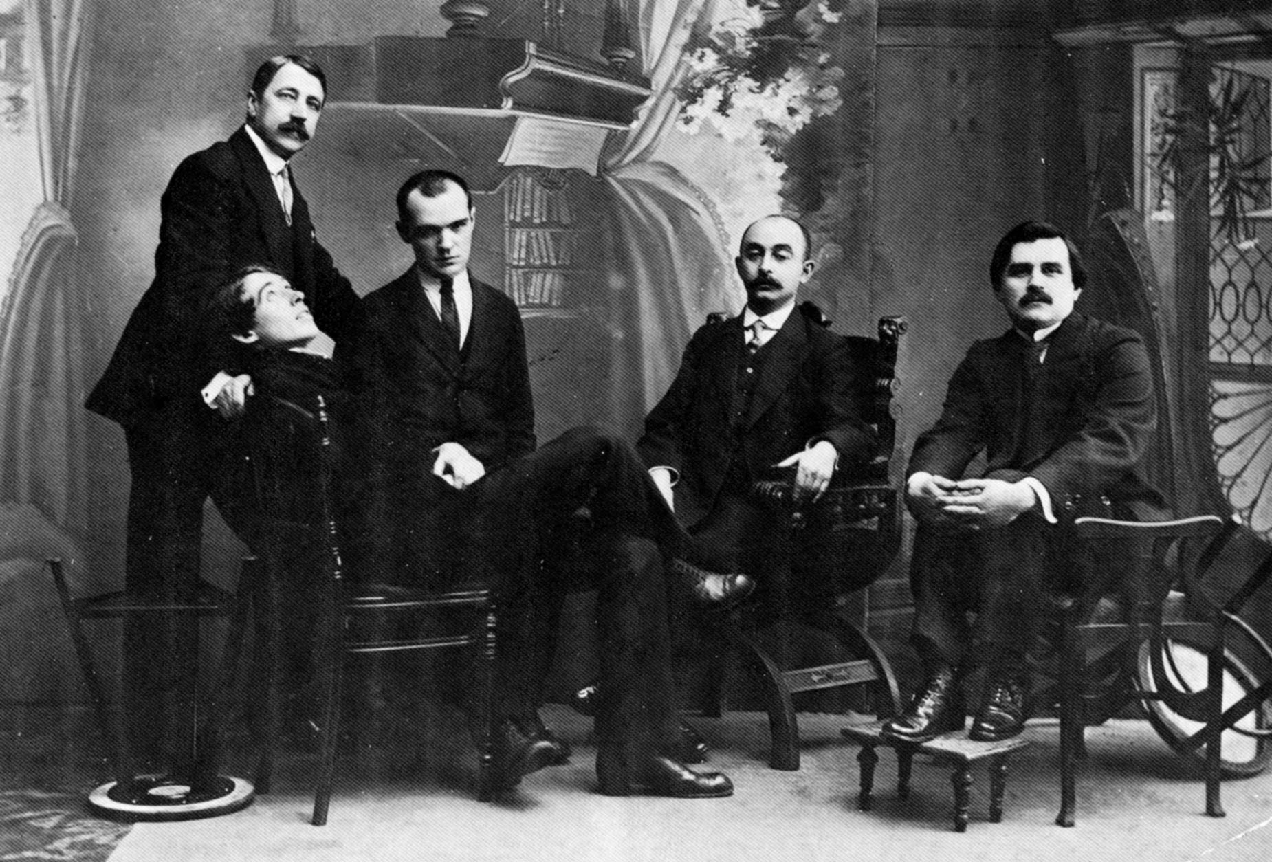 From left to right: M. Matyushin, A. Kruchenykh, P. Filonov, I. Shkolnik, K. Malevich